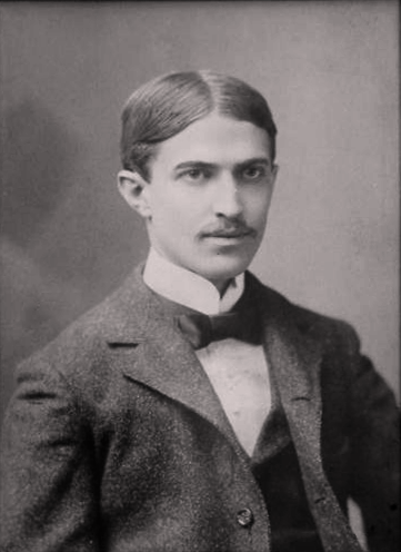 Stephen Crane